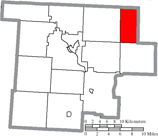 Map of the municipal and township boundaries of Morgan County, Ohio, United States, as of the 2000 census, with the location of Manchester Township highlighted. Township borders are shown only in unincorporated areas in order to differentiate incorporated and unincorporated areas more clearly.